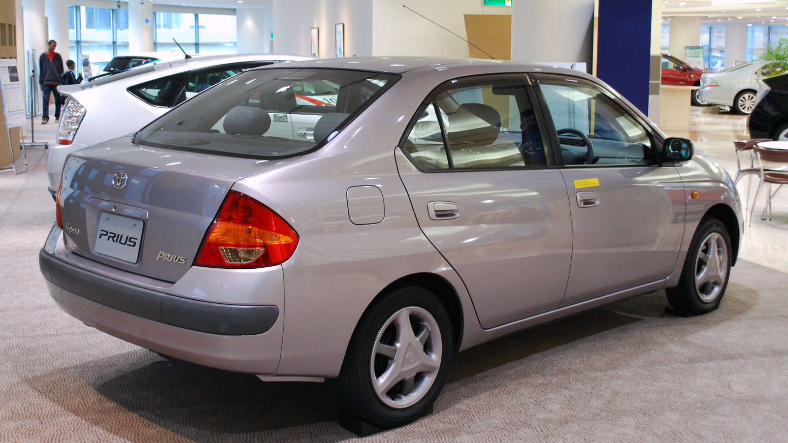 1st generation Toyota Prius (1997/12 - 2000/5)